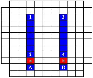 Orientation of last layer before correction for 9x9x9 Rubik’s family cube